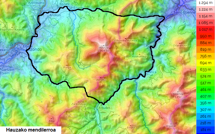 Topographic map showing the Hauza Range.